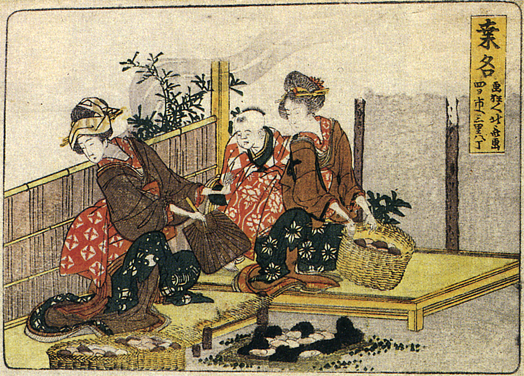 Kuwana (Baking clams (Meretrix lusoria, Hamaguri) using pinecones as fuel in Kuwana, Japan)